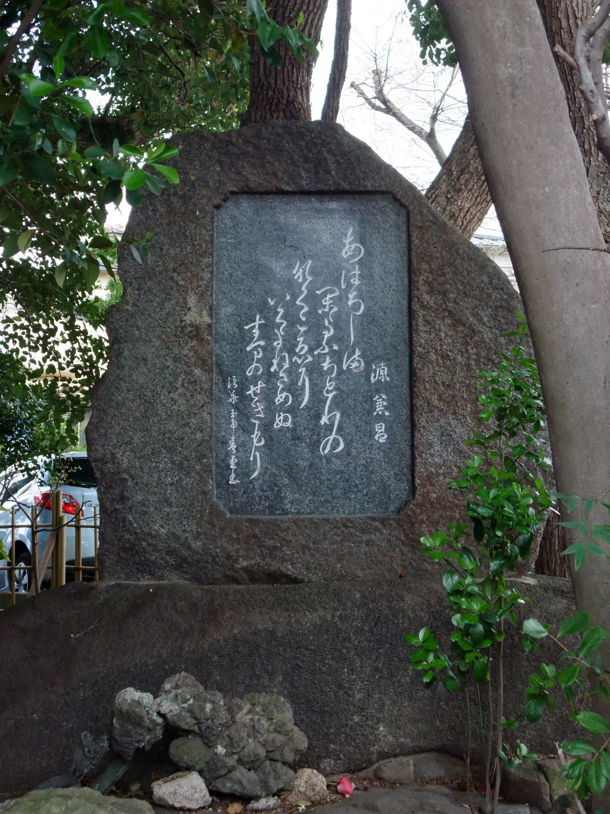 the monument of Waka (Japanese poem), composed by Minamoto no Kanemasa